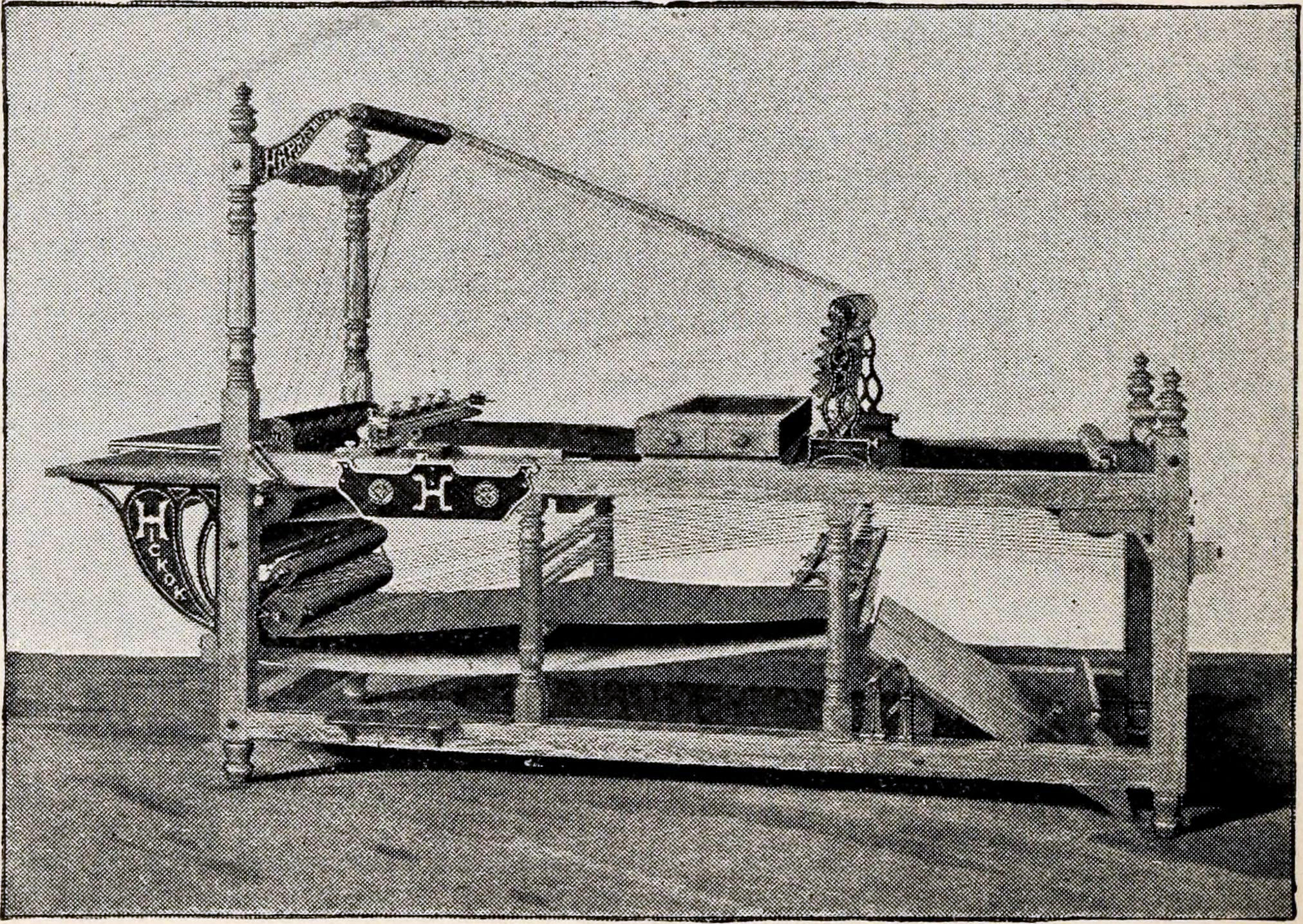 Title: Specimens of type, borders, ornaments, brass rules and cuts, etc. : catalogue of printing machinery and materials, wood goods, etc Year: 1897 (1890s) Authors: American Type Founders Company Subjects: Type and type-founding Printing Printing machinery and supplies Publisher: Chicago : American Type Founders Text Appearing Before Image: Designed for small shops, where ruling is not done very rapidly, andwhere, therefore, the ink has time to dry (though the carrier is short)after the paper has passed under the pens and before it drops into thereceiving box at feeders feet. So far as material and workmanshipare concerned, there is nothing better made than Stjde 2-B. The differ-ence between it and the higher-priced rulers is simply in the numberof parts used. Striking is accomplished on this machine exactly as it ison the Style i-A ruling machine. Paper drops into receiving box. STYLE 1=A HICKOK HAND STRIKER RULING MACHINE. Described on opposite pag-e. Text Appearing After Image: 924 EVERYTHING FOR THE PRINTER Style 1=A Ruling Machine is for use in shops where there is consider-able faint or cross ruling, thus economizing the time of automatic strik-ers used in the same shop. It may also be used in small-sized binderies,where there is not sufficient work for an automatic striker machine.The operator turns the hand crank with the left hand, thus operatingthe machine by hand, while with the right hand the pen-beam is tiltedup and down, doing hand striking. Power may be applied, and steamattachments are furnished to order at an extra charge. vStyle i-A is asperfectly built in everj^ part as the mOvSt expensive automatic strikerruling machine. The difference in construction is simply leaving off thestriker parts and some other necessary pieces required on an automaticstriker machine. STYLE 1 SINGLE BEAM AUTOMATIC STRIKER RULING MACHINE.